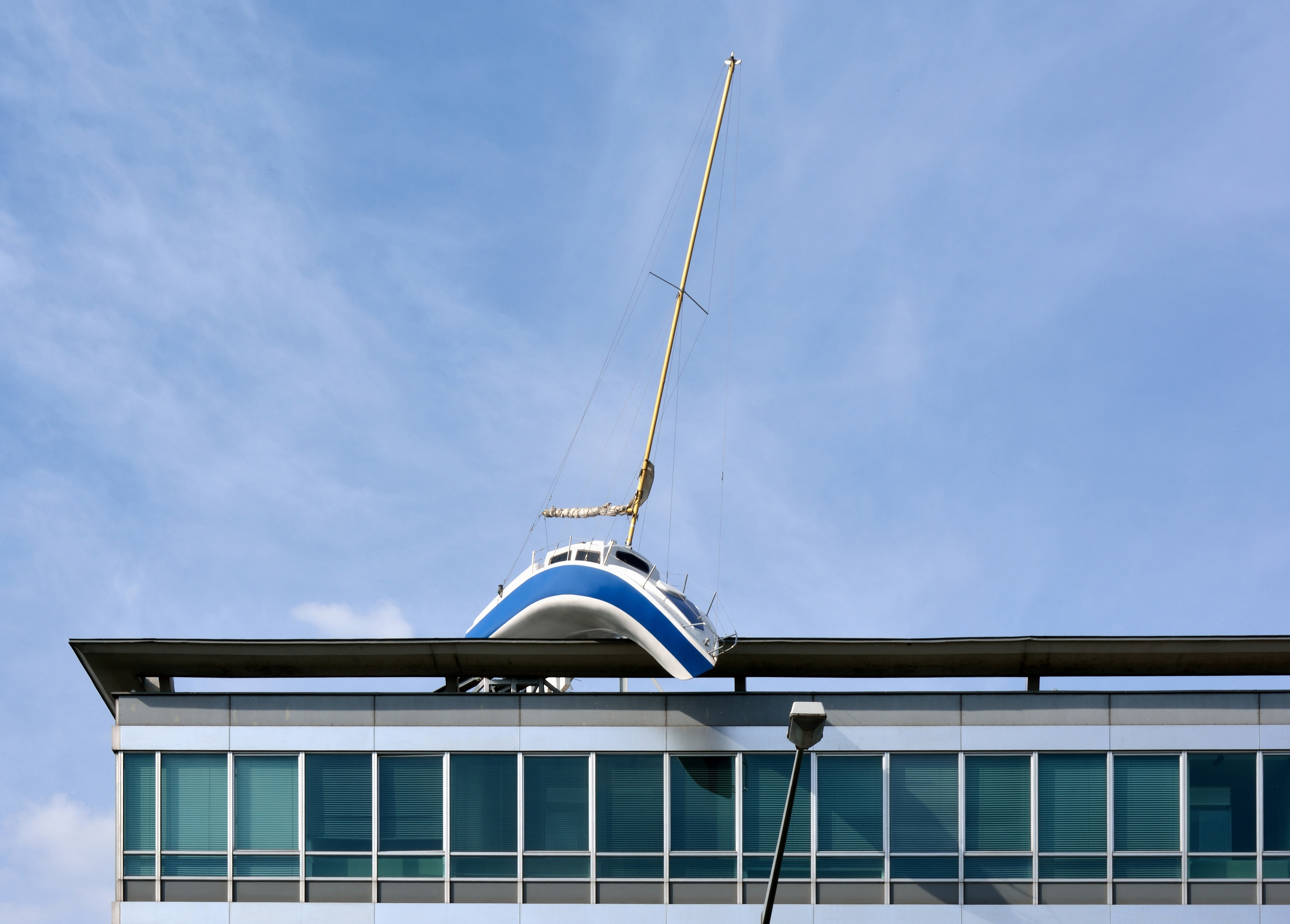 Hotel Daniel, sculpture on the roof by Erwin Wurm, Landstraßer Gürtel 5 (second address: Jaquingasse 16-18), 3rd district of Vienna